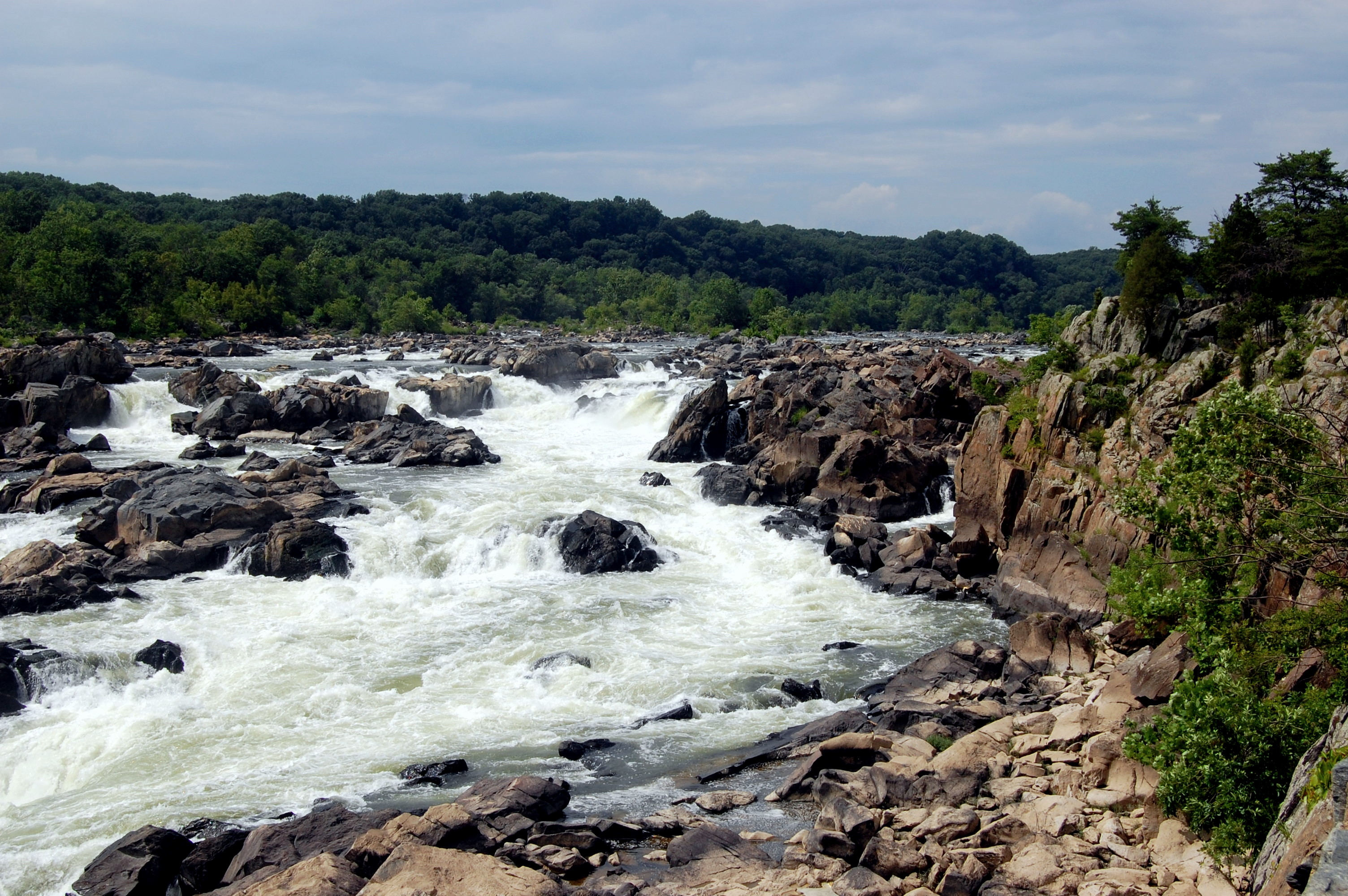 DSC_3543, Location: Chesapeake and Ohio Canal National Historic Park